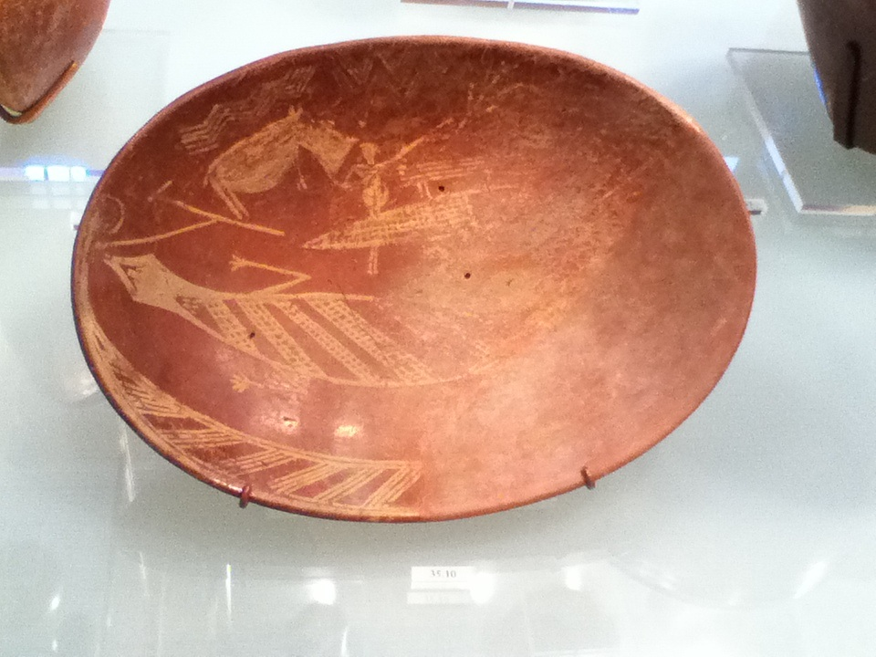 This is a plate from the Early Dynastic period of Ancient Egypt, circa 3900 BC. It depicts a man on a boat alongside a Hippo and Crocodile. The plate now resides in the Metropolitan Museum of Art.